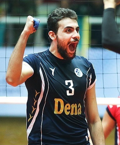 Faezi at an Iranian volleyball league match vs Urmia, 2015, Tehran